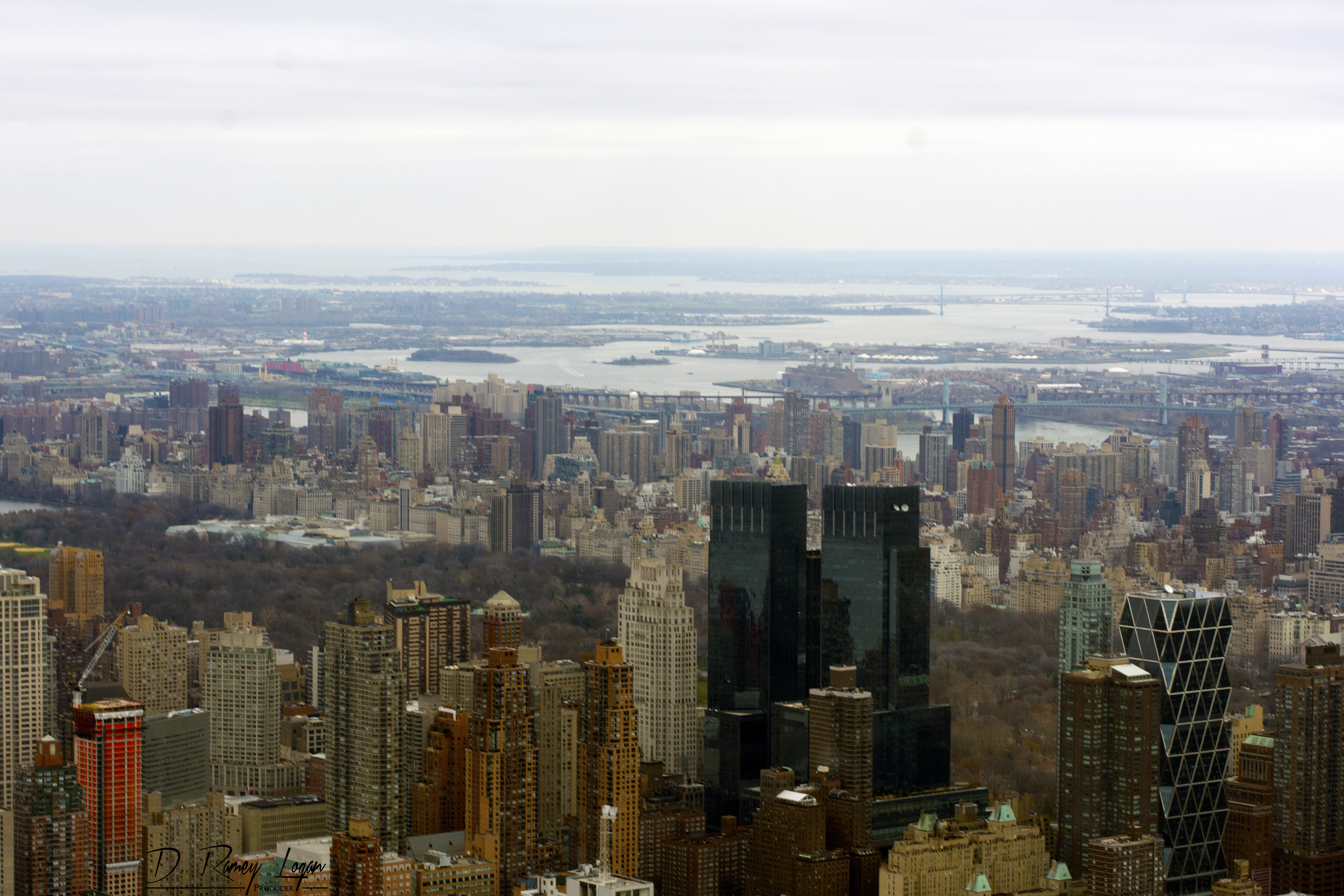 Central Park Aerial 2014 photo D Ramey Logan